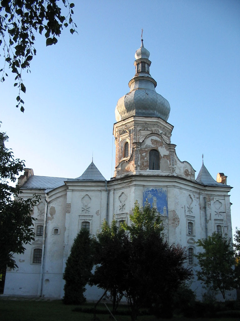 The Voznesenskyi Cathedral in Pereiaslav-Khmelnytskyi, Ukraine.